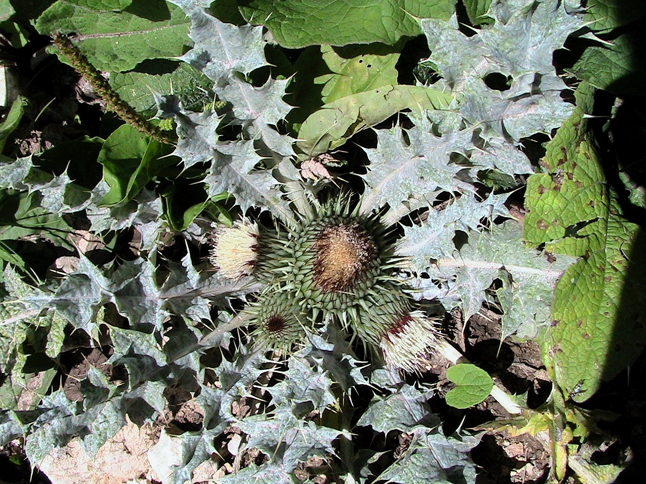 Onopordum acaulon. In la Bòfia, la Coma i la Pedra (Solsonès - Catalunya). To 1.830 m. altitude